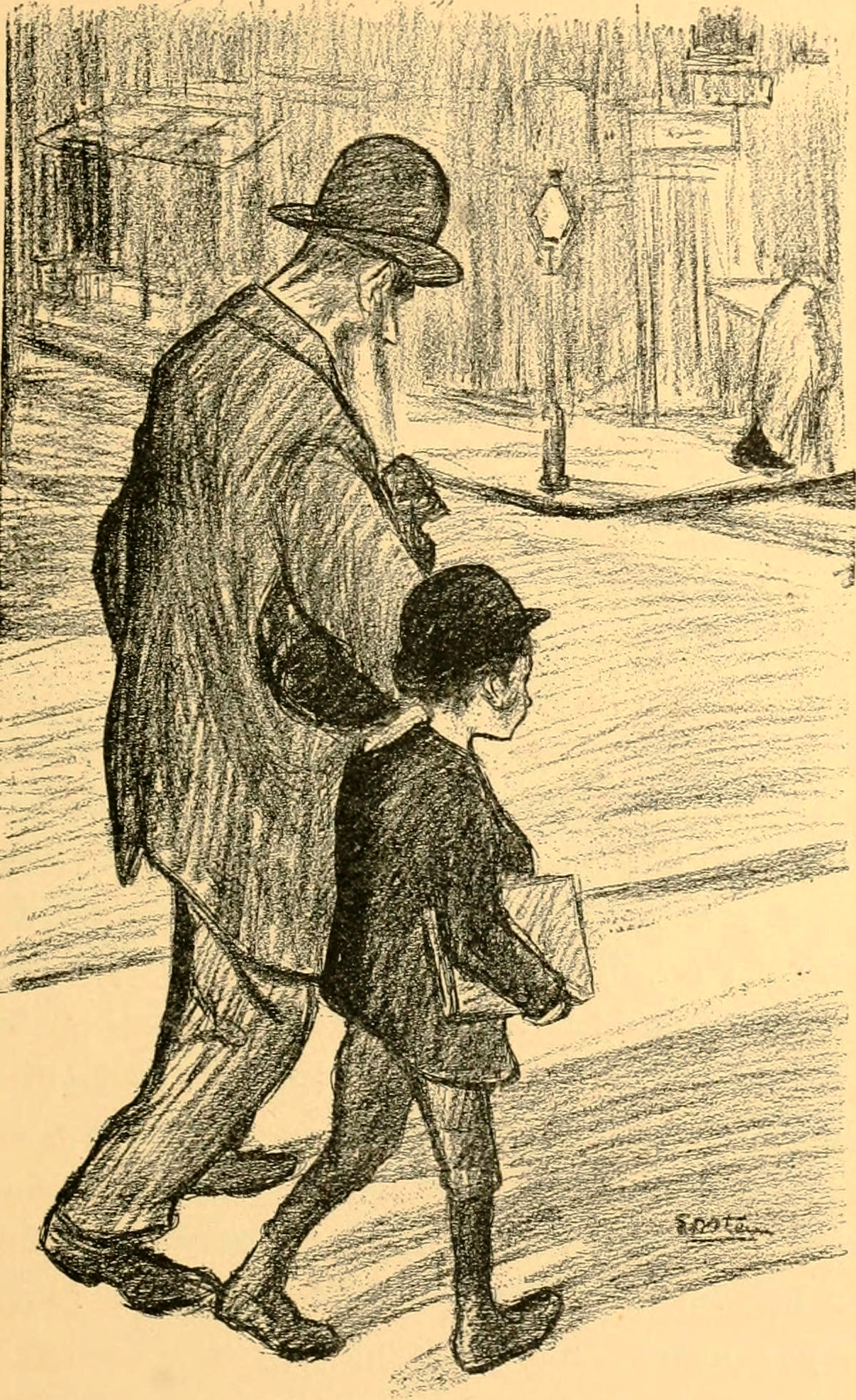 From :The spirit of the Ghetto; studies of the Jewish quarter in New York